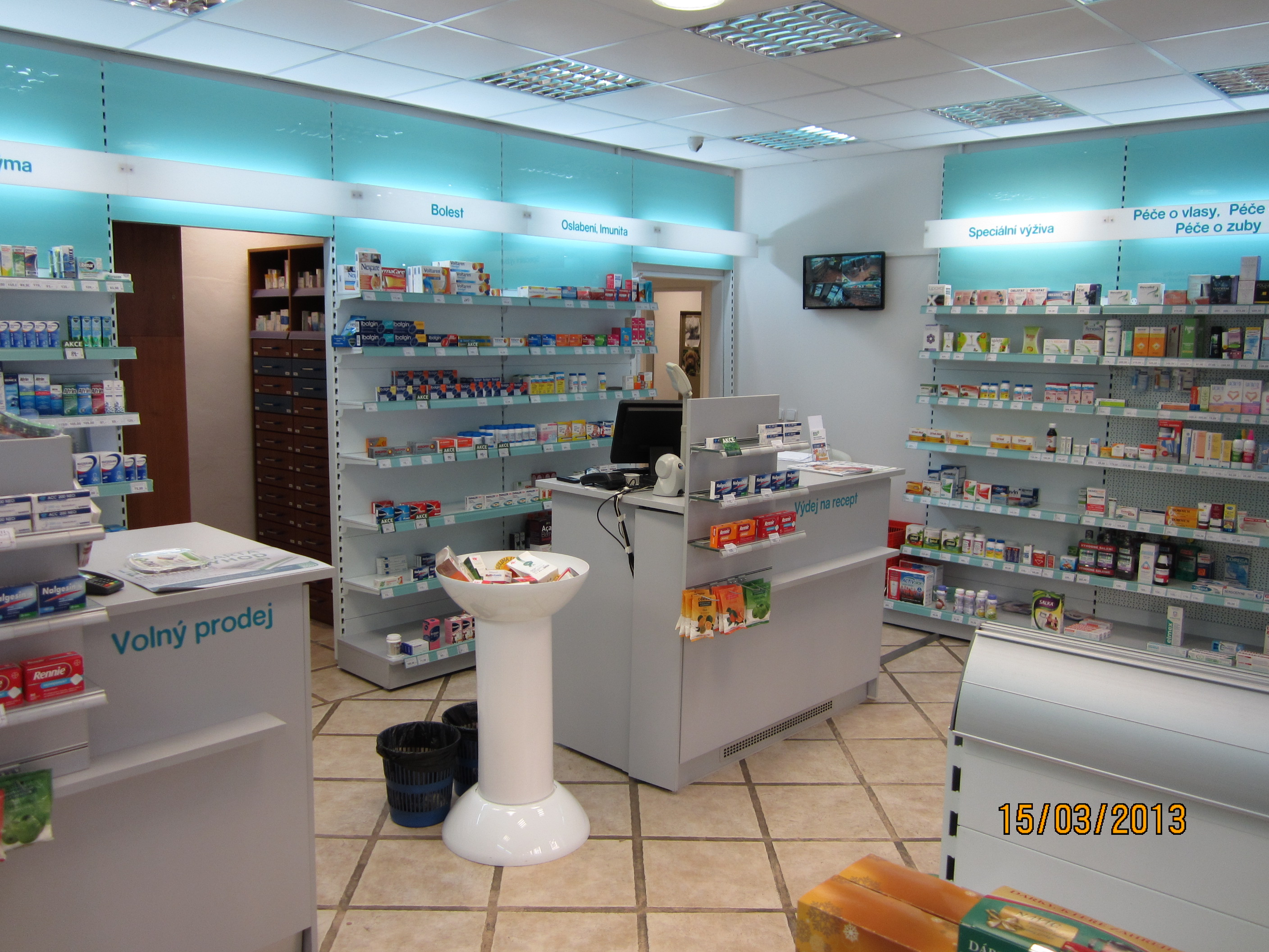 Pharmacy in Dlouhá st. Prague 1